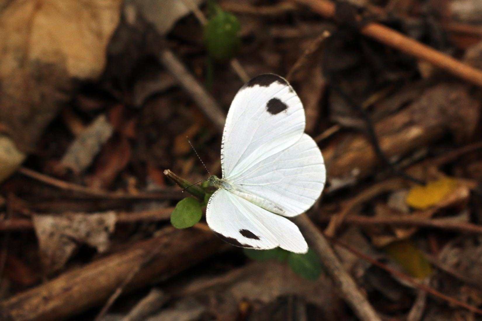 African wood white or flip flop butterfly (Leptosia alcesta inalcesta), Mabibi, KwaZulu Natal, South Africa